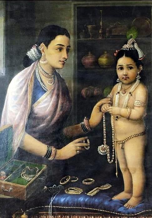 Yasoda adorning Krishna with ornaments.